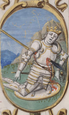 Bermudo III of Leon